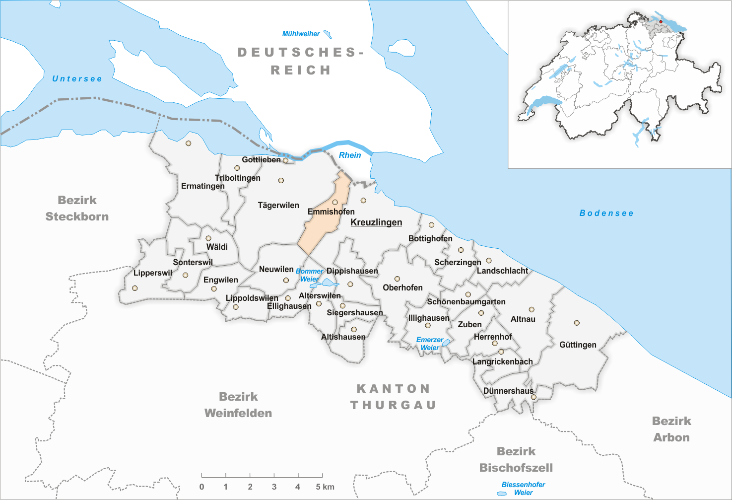 Municipality Emmishofen